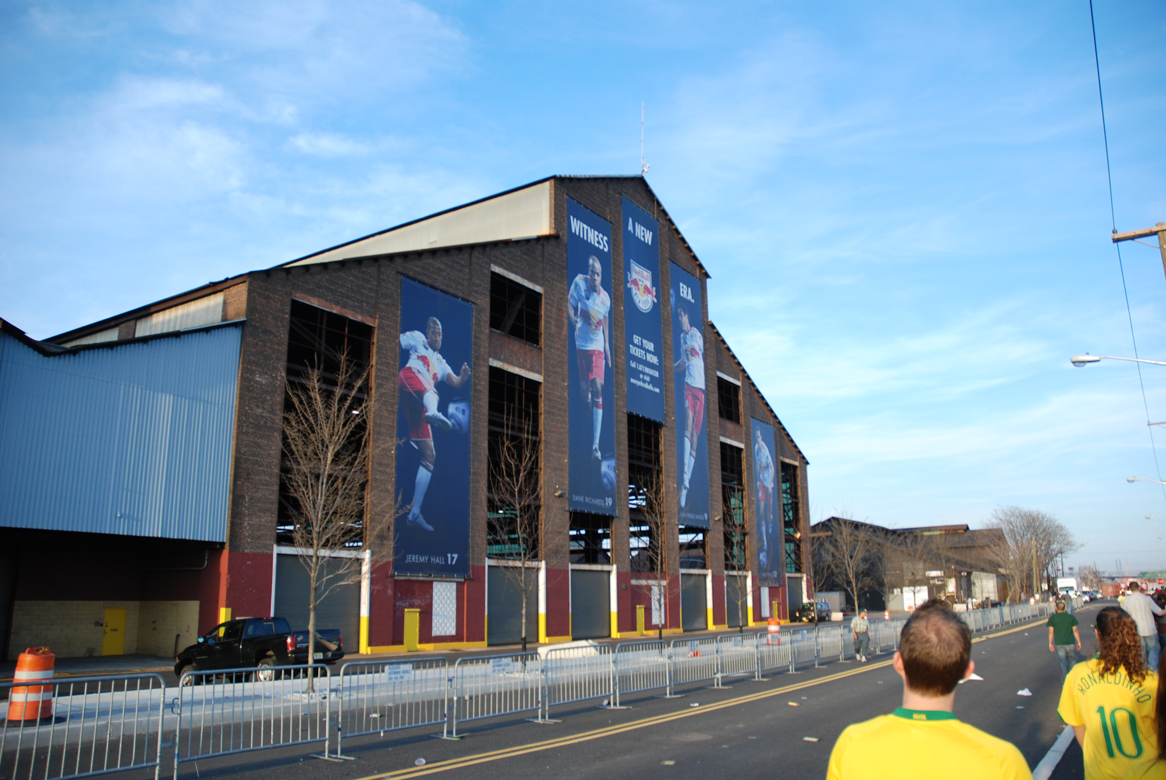 Posters promoting the opening of Red Bull Arena in Harrison, NJ.